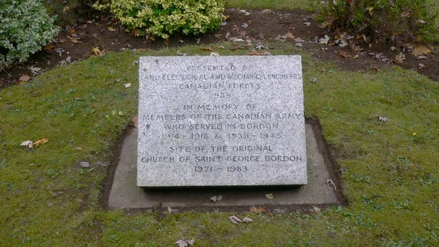 Memorial to those of the Canadian Army who served at Bordon This is in a little garden by the Prince Philip Barracks on Budds Lane.